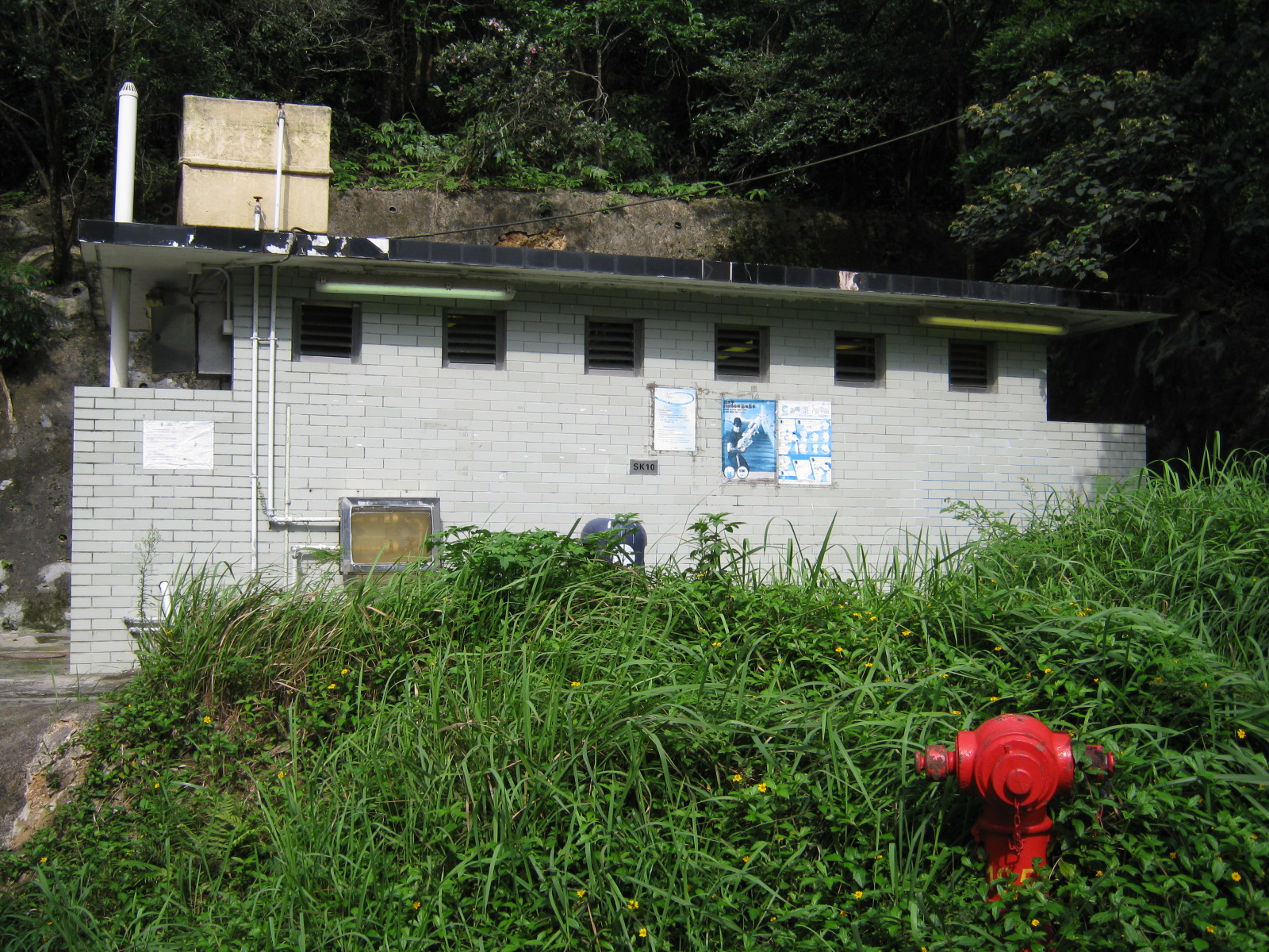 An aqua privy near Ah Kung Wan, Sai Kung.